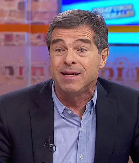 Ernesto Talvi in 2019.